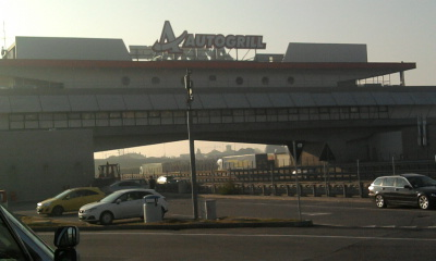 Autogrill "Brembo" in Osio Sopra, Italy